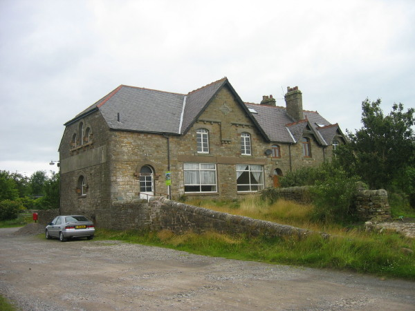 The Emporium, Tindale The house which is up for sale is called The Emporium and one assumes must have been the village shop. The railway ran past the house.